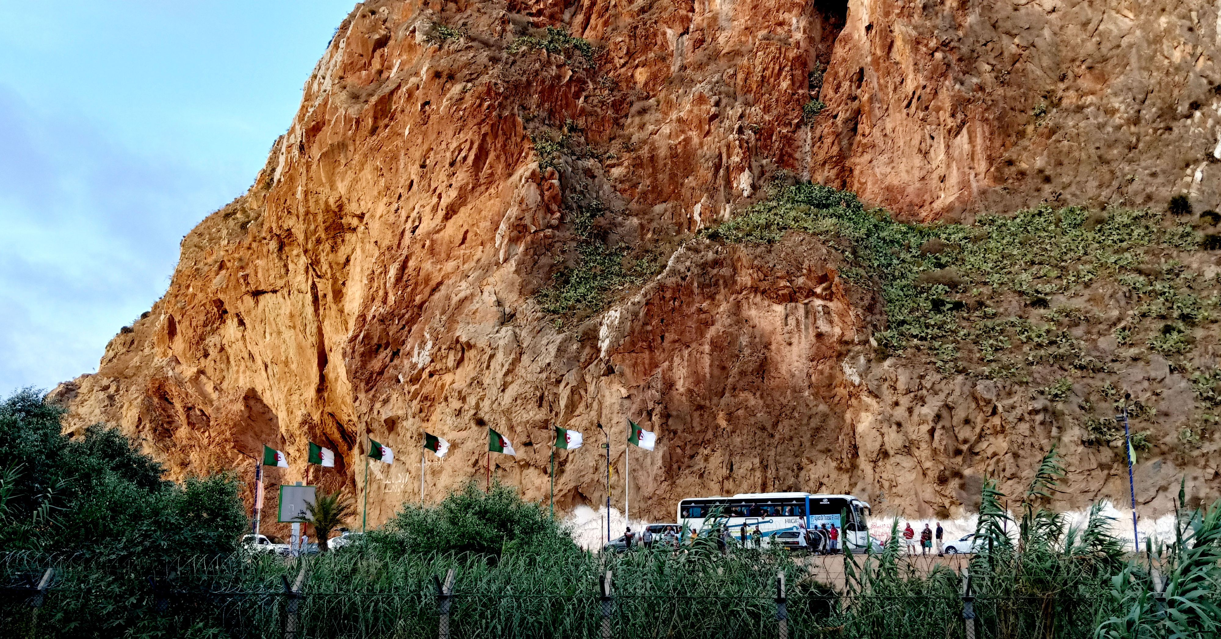 This is an image with the theme "Play" from: Morocco